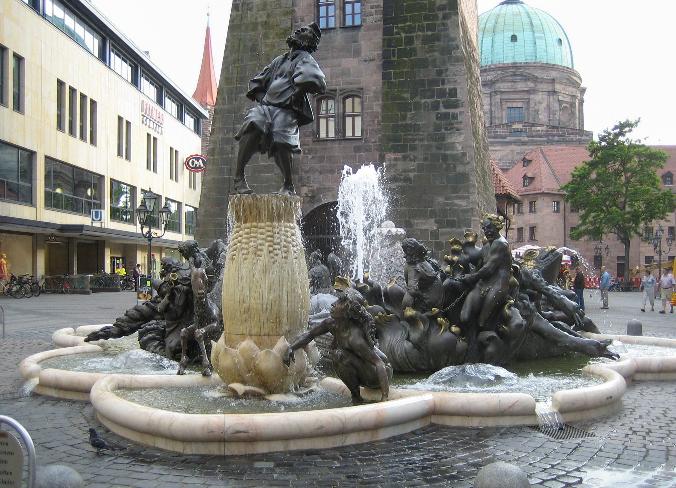 Marriage Roundabout in Nuremberg